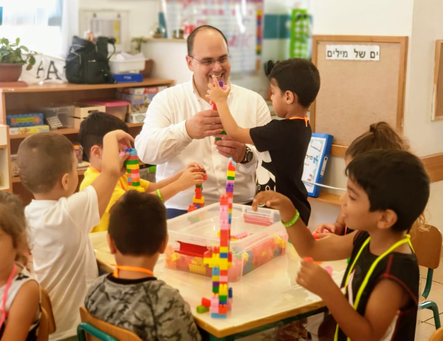 Tzikva Brot, mayor of Bat Yam, playing with children at a Bat Yam kindergarten